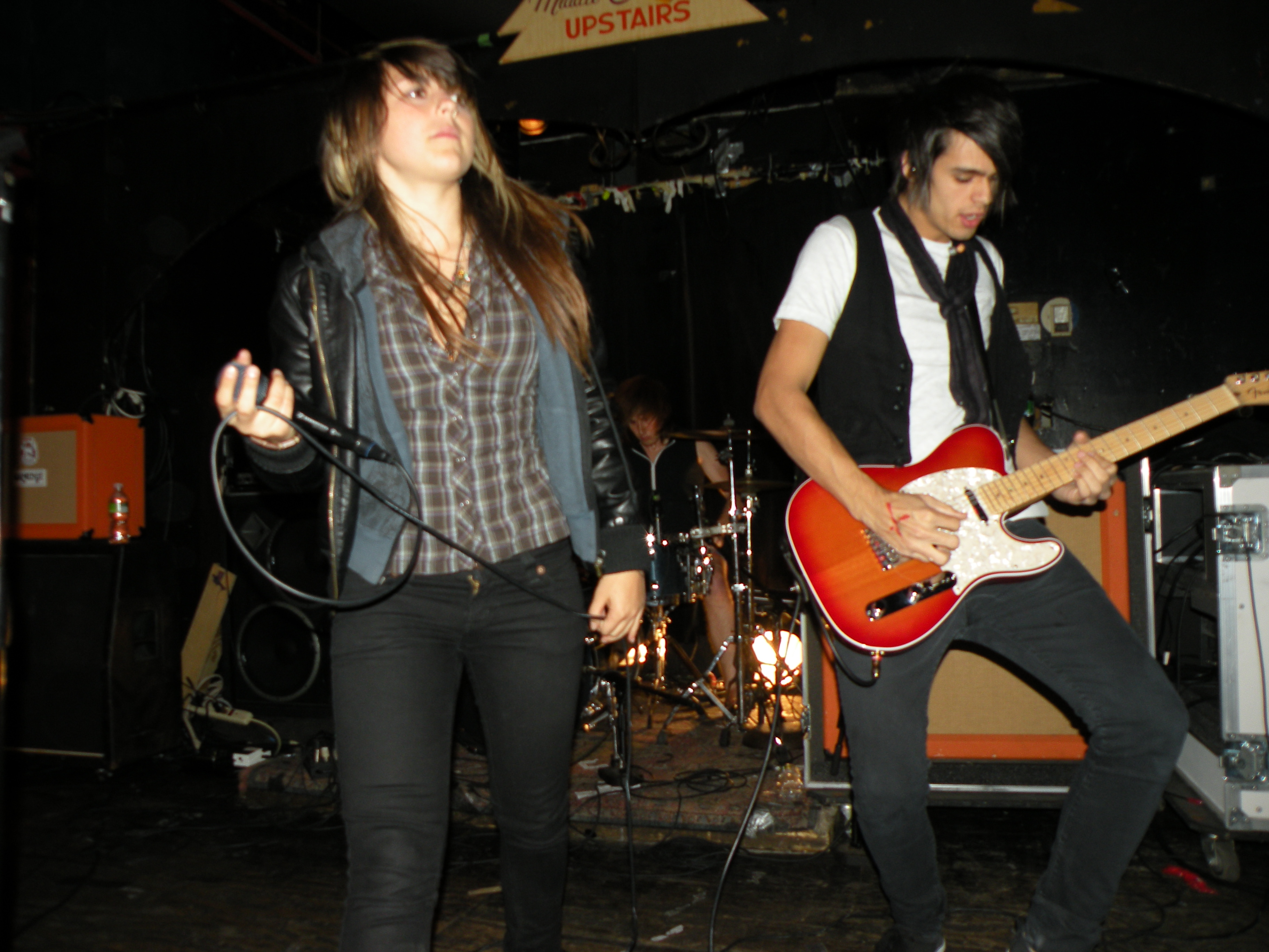 VersaEmerge at the Middle East Upstairs in Cambridge, MA on 10/12/2008